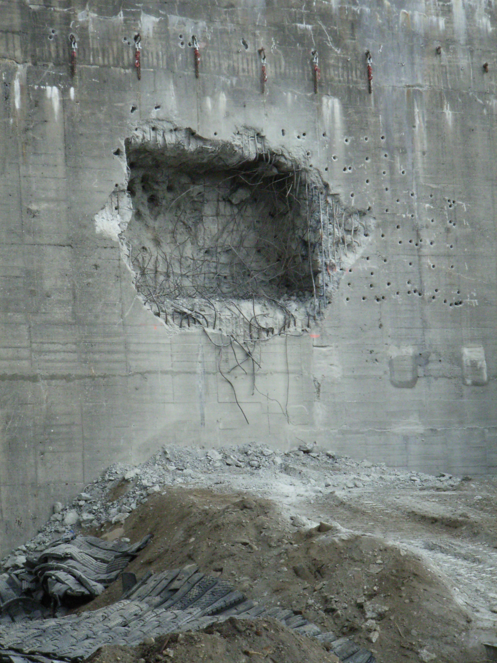 Creating a hole in Dora, a submarine bunker in Trondheim.